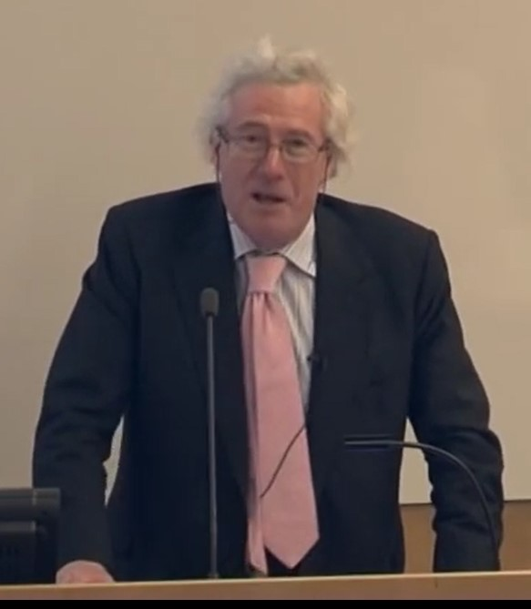 The Right Honourable Jonathan Philip Chadwick Sumption - commonly called Lord Sumption - Officer of the Most Excellent Order of the British Empire, Fellow of the Society of Antiquaries of London, Fellow of the Royal Historical Society